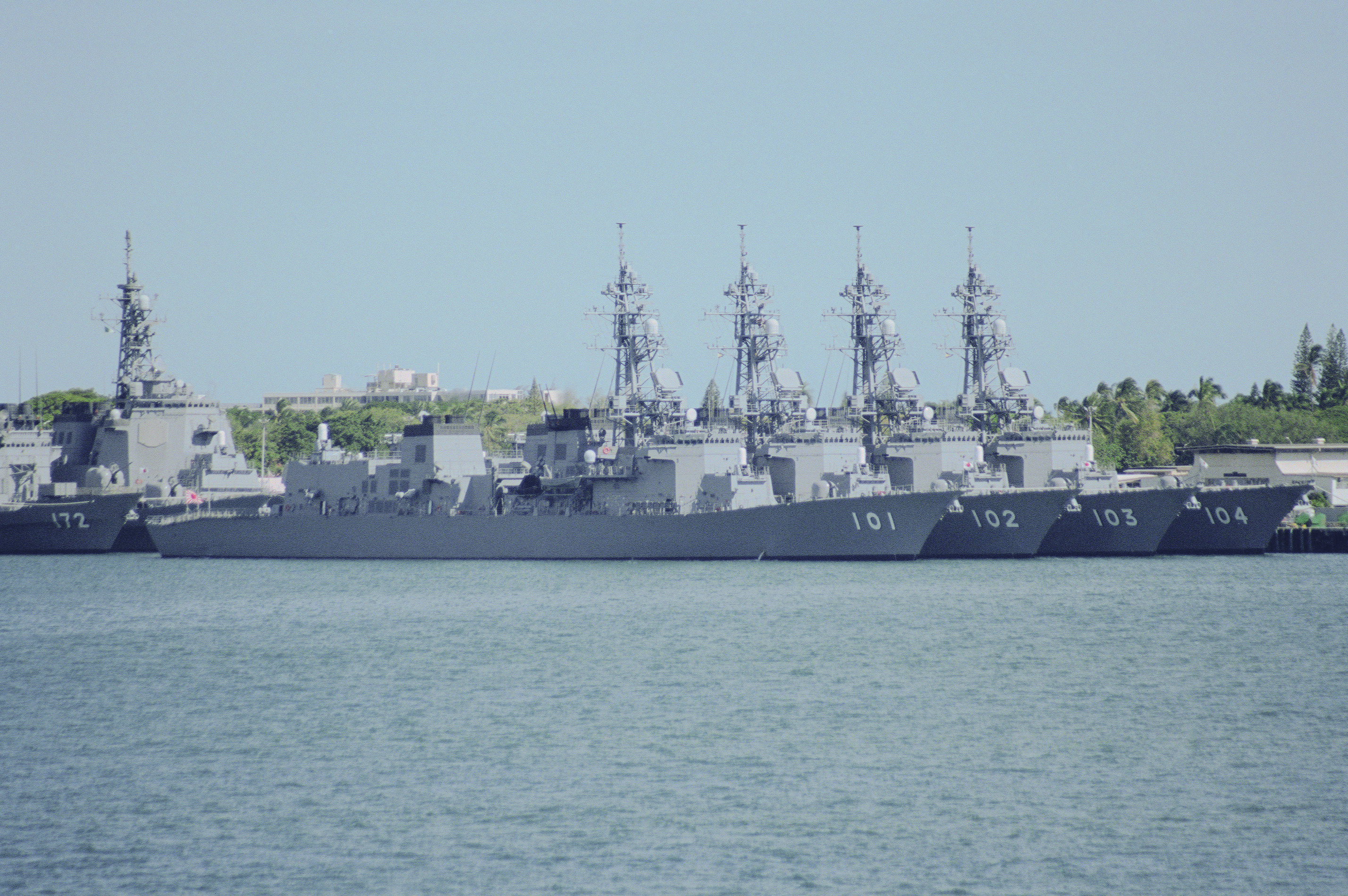 View of the Japanese Defense Forces ships of the 1st Escort Flotilla, Escort Division 48. The ships are JDS MURASAME (DD 101), HARUSAME (DD 102), YUDACHI (DD 103) and KIRISAME (DD 104) tied up at bravo pier no. 22. Astern, partially, visible are the JDS SHIMAKAZE (DDG 172) and JDS KONGO (DDG 173). The ships are here to take part in Operation RIMPAC 2000. Location: PEARL HARBOR, HAWAII (HI) UNITED STATES OF AMERICA (USA)